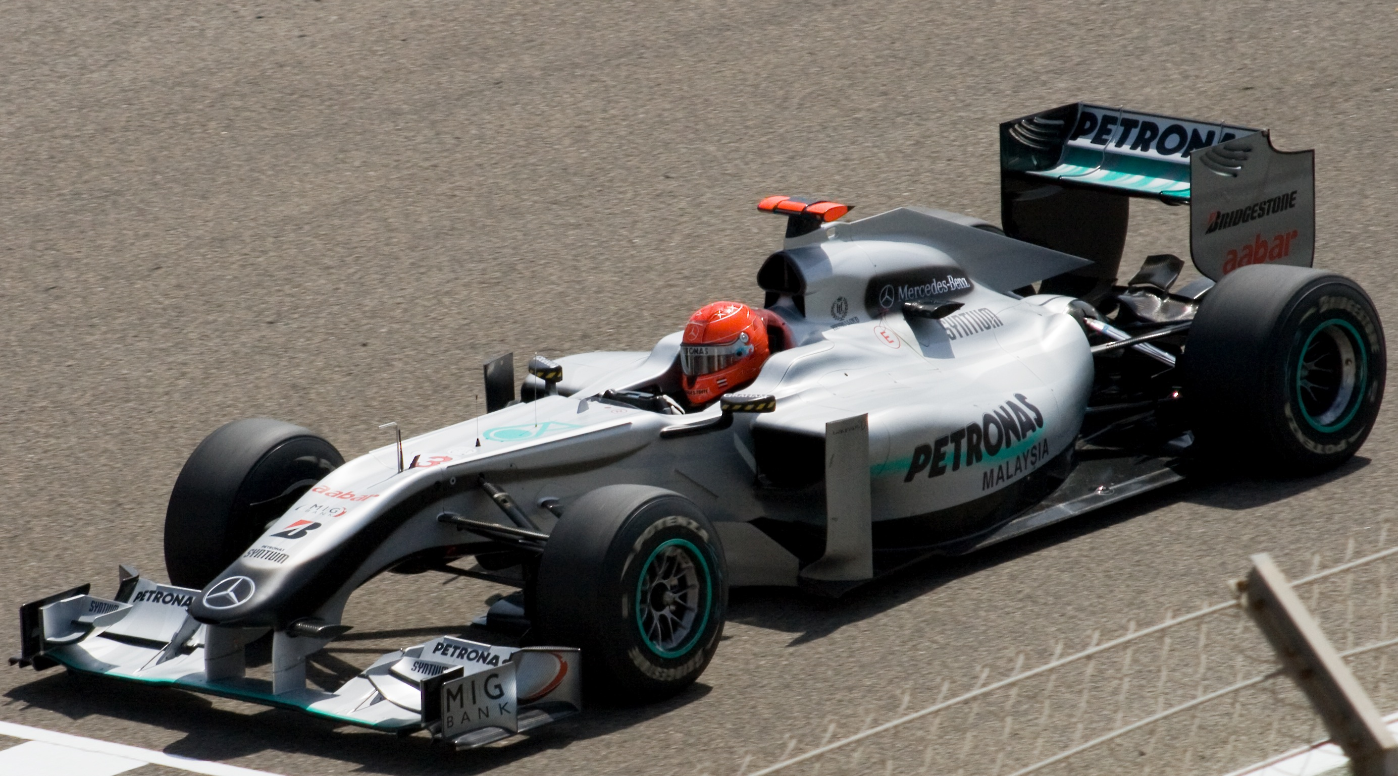 Michael Schumacher driving for Mercedes GP during a practices session in Bahrain.